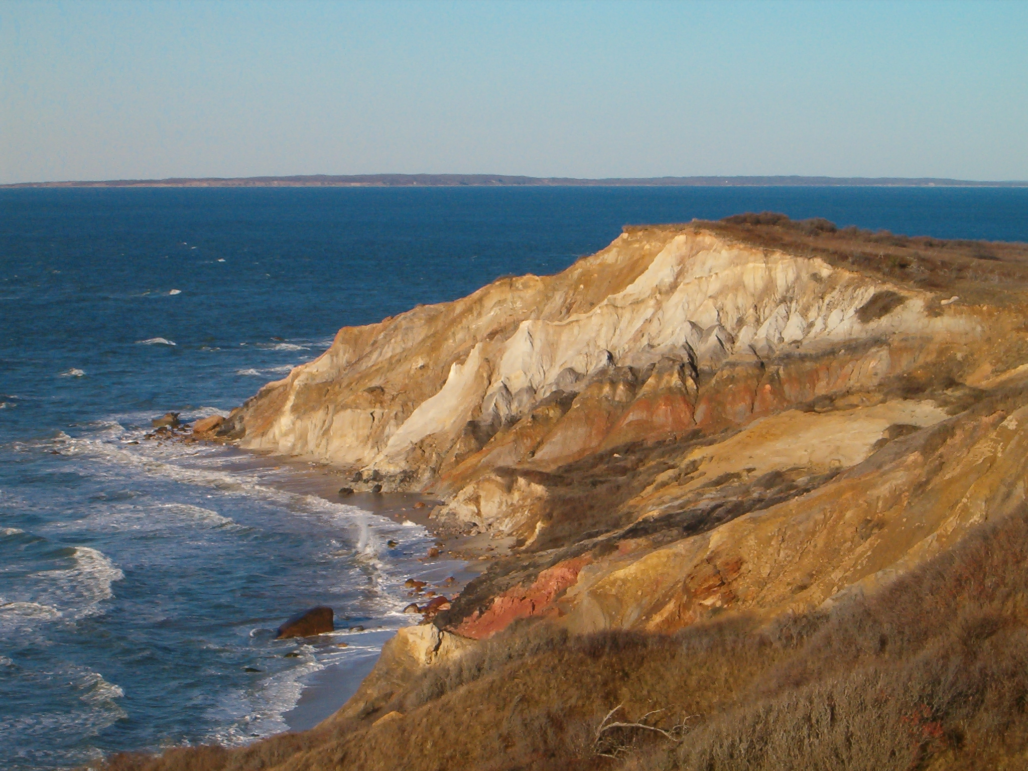 This picture was taken in November of 2005. In the foreground, you see the Gay Head cliffs of Martha's Vineyard; the body of water toward the back of the image is Vineyard Sound; in the background are the Elizabeth Islands. Cuttyhunk is on the left.